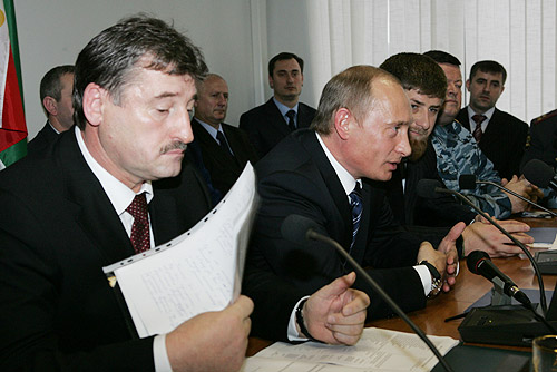 From left to right at the first session of the Chechen Parliament: Chechen President Alu Alkhanov, Russian President Vladimir Putin, and Deputy Prime Minsiter of Chechnya Ramzan Kadyrov.